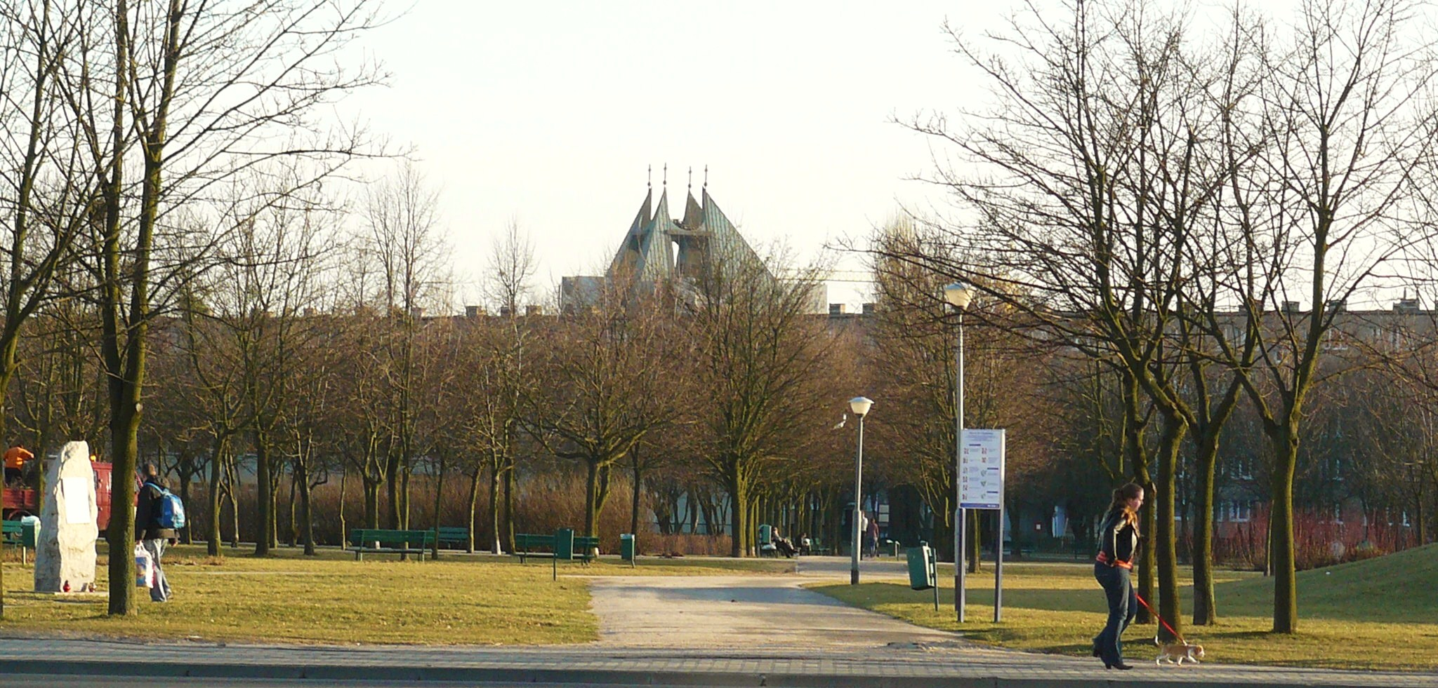 Czarnecki-Park, Poznan.